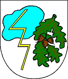 Coat of Arms of Rohnstedt